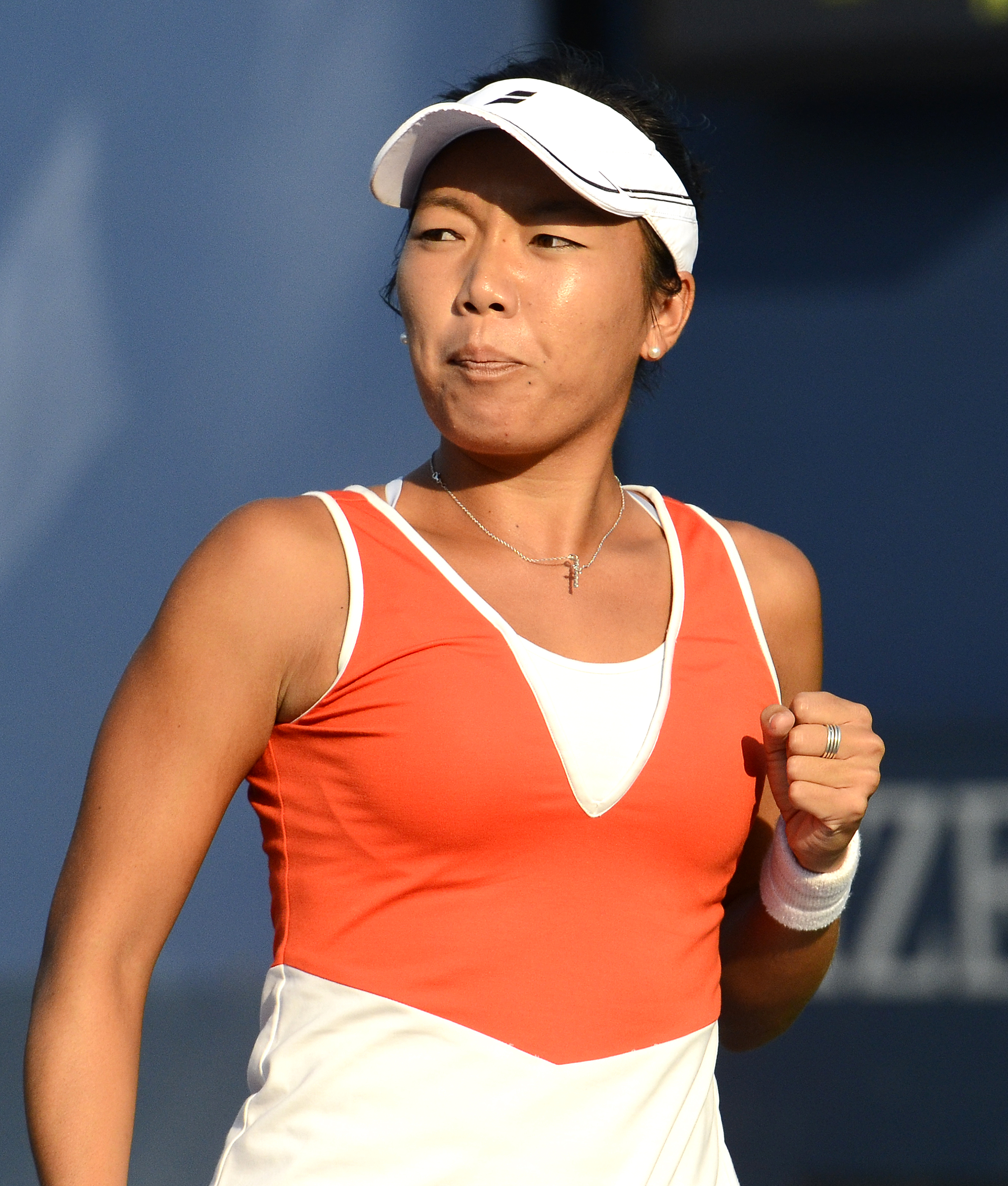 August 26, 2014 Queens, NY Vania King (USA) def. Francesca Schiavone (ITA)